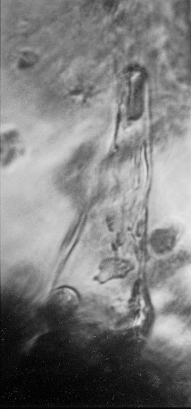 Photo and drawing of Pyrsonymphites cordylinis n. gen., n. sp. F = flagellum, T = tubular area, N = nucleus. Bar = 21 μm.